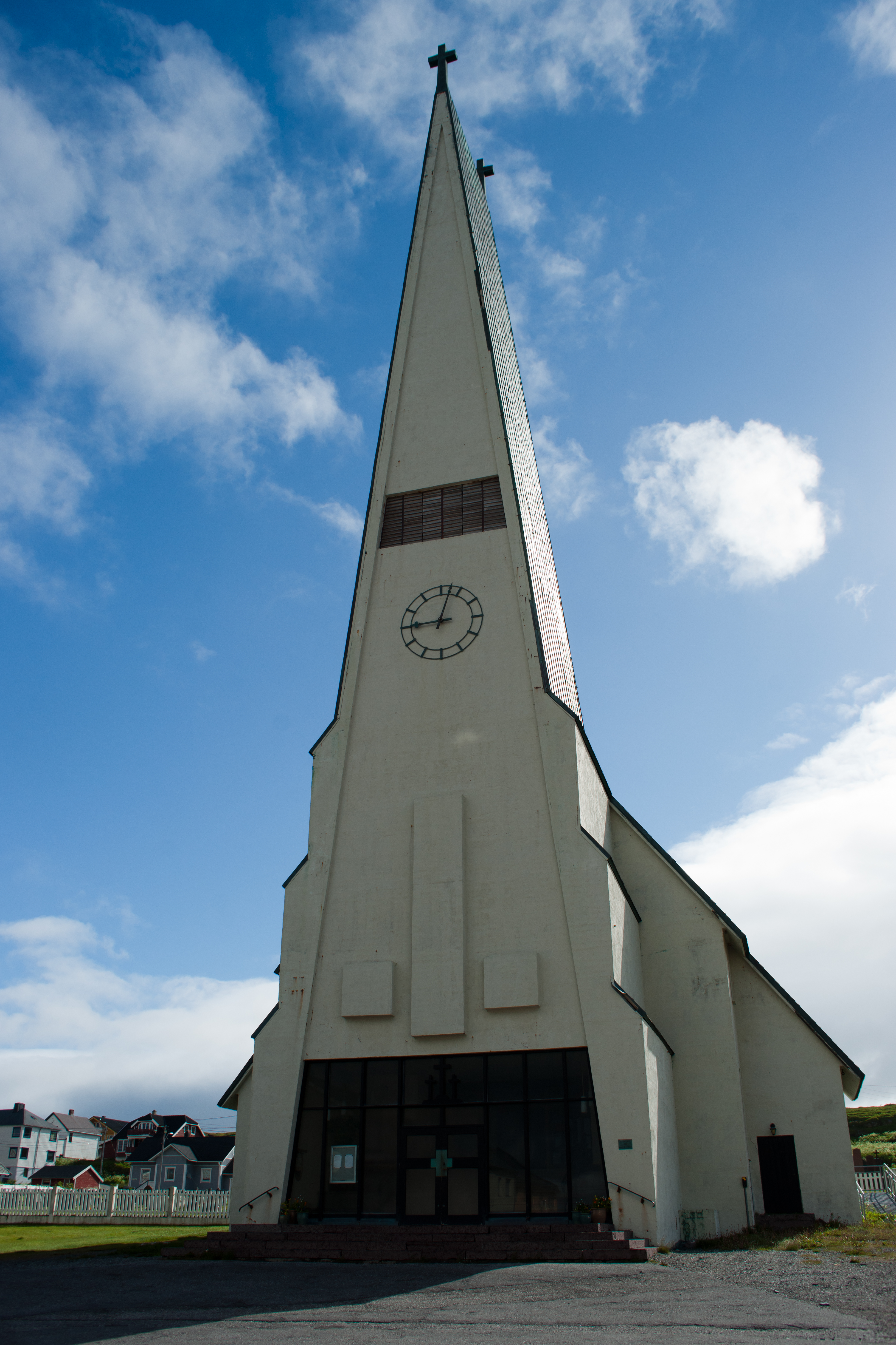 Vardø church, Norway.